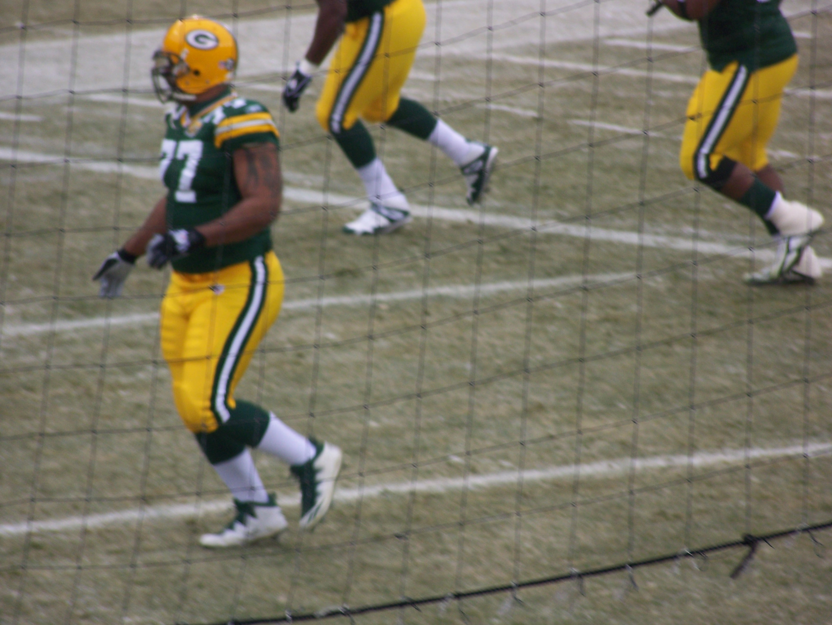 Cullen Jenkins of the Green Bay Packers.